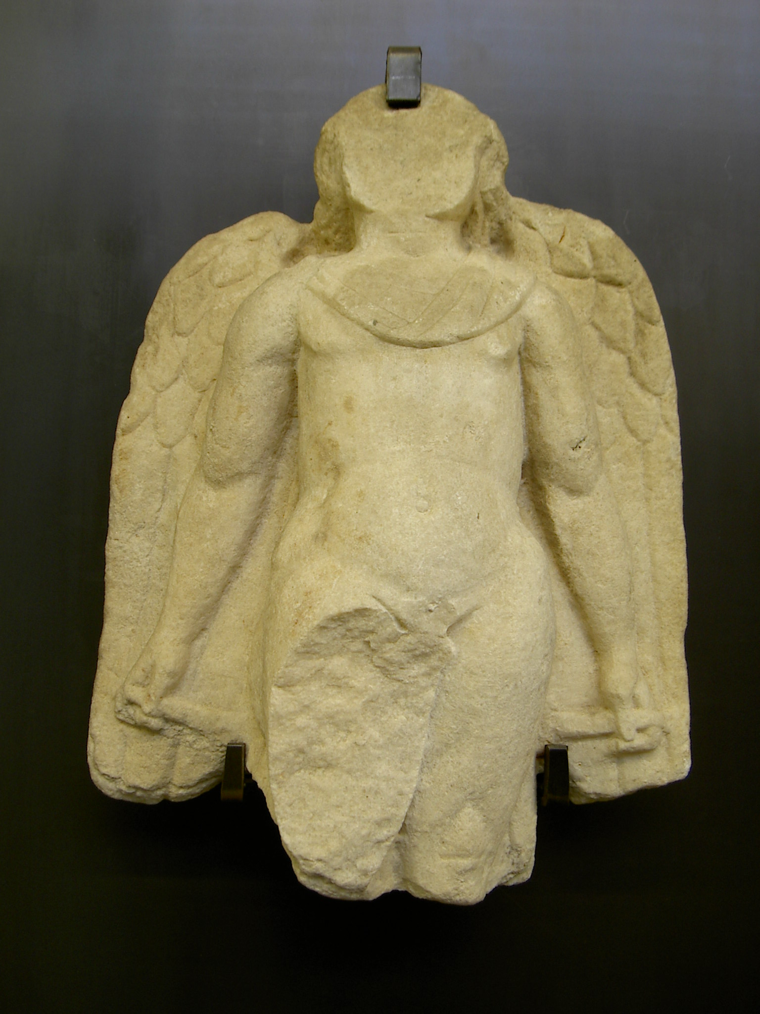 Ikarus, roman empire, found in Leibnitz Styria, now Joanneum Graz